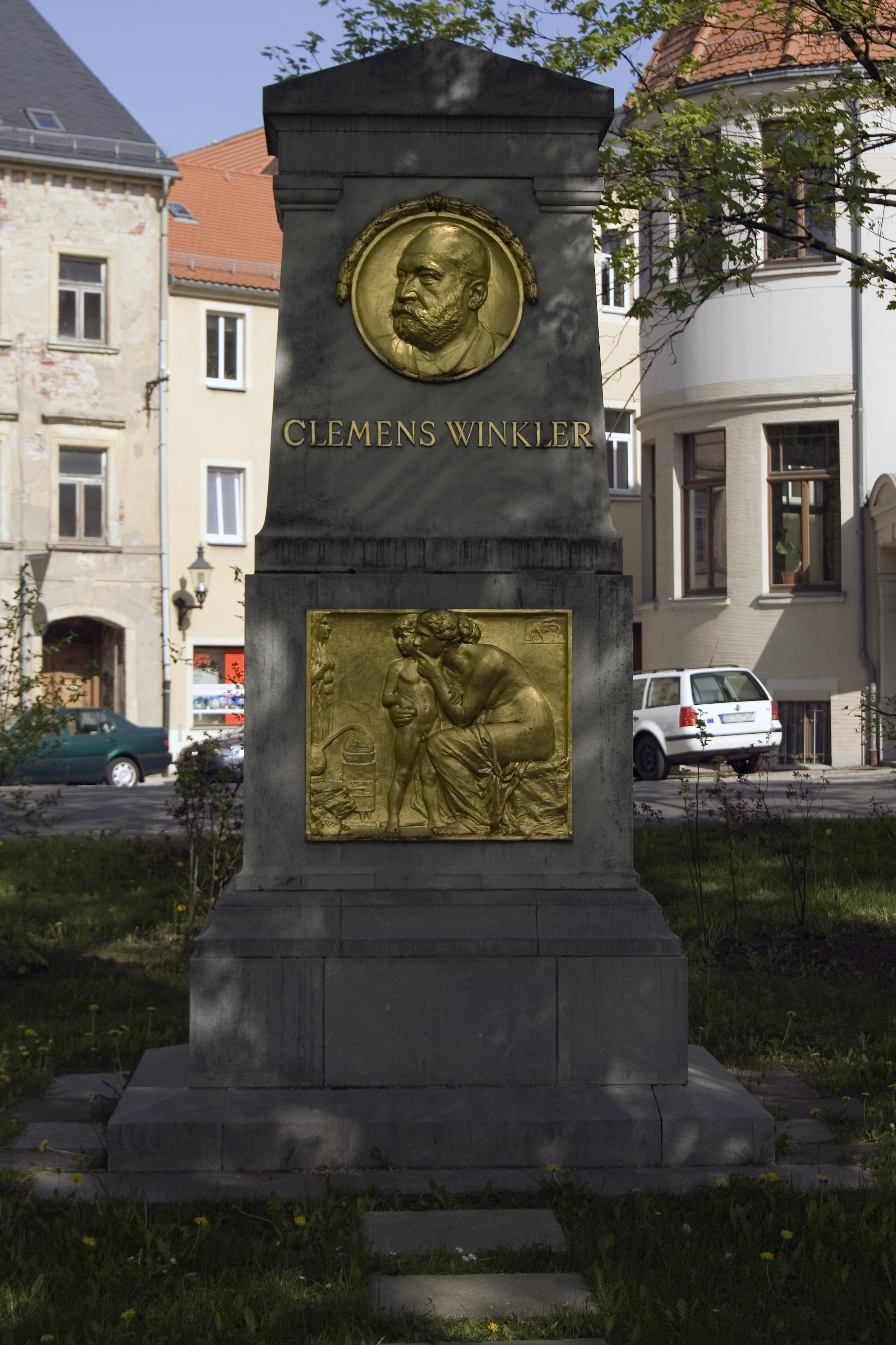 Freiberg, Saxony, monument to Clemens Winkler